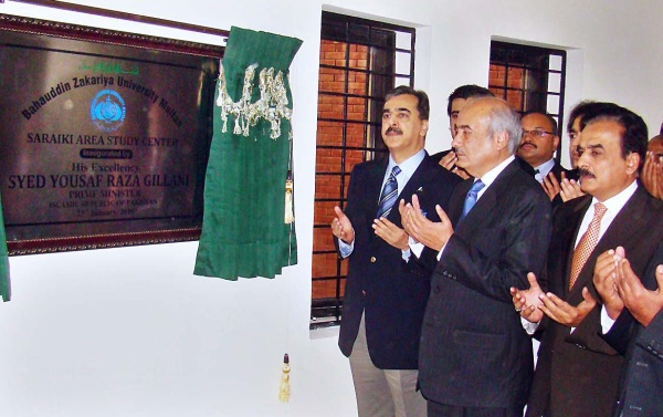 Saraiki Study Center